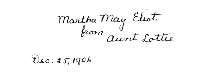 Likely Charlotte's handwriting, possibly her niece's. From the Martha May Eliot collection in The Arthur and Elizabeth Schlesinger Library on the History of Women in America